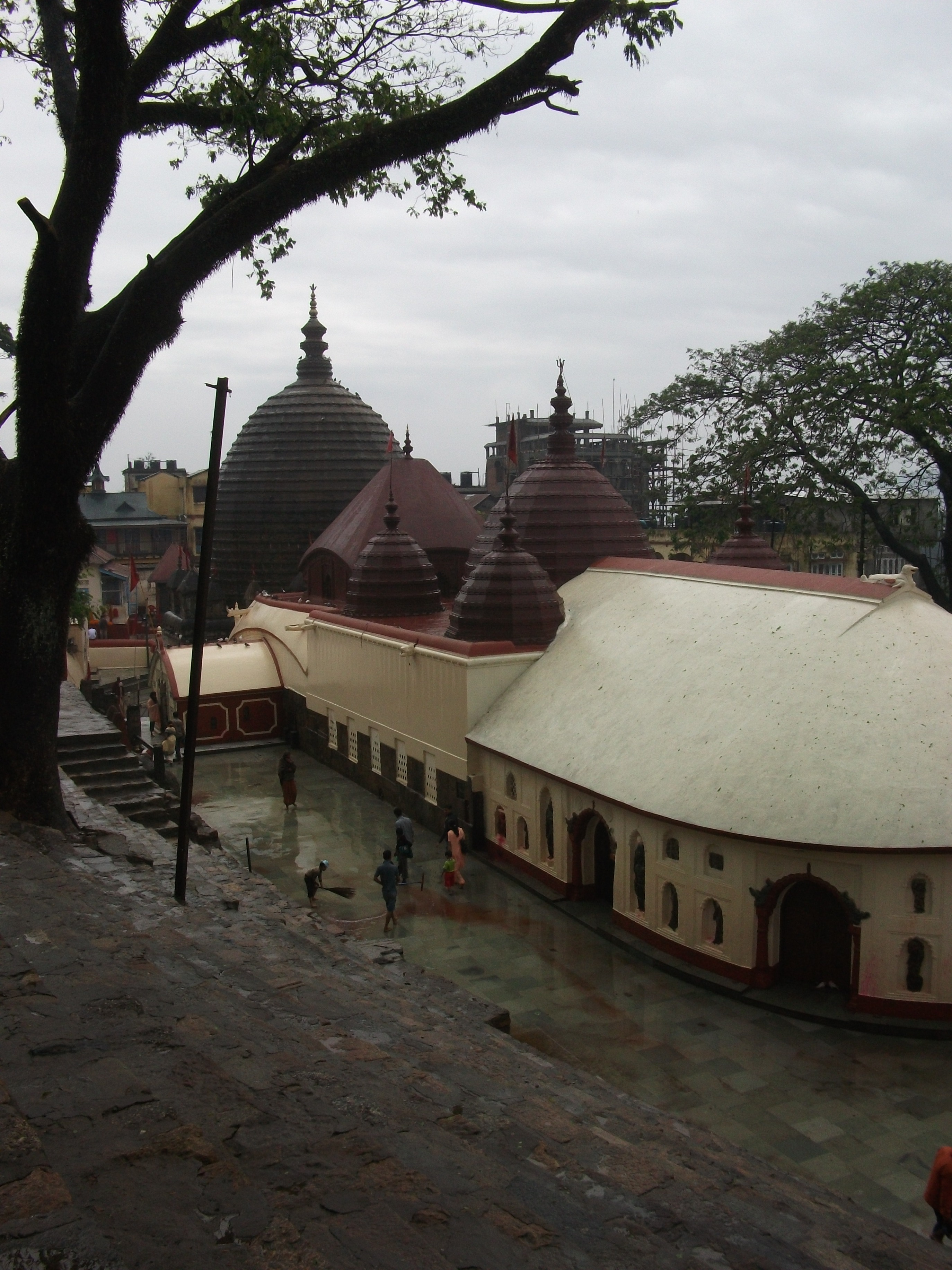 Picture of KAMAKHA TEMPLE .............